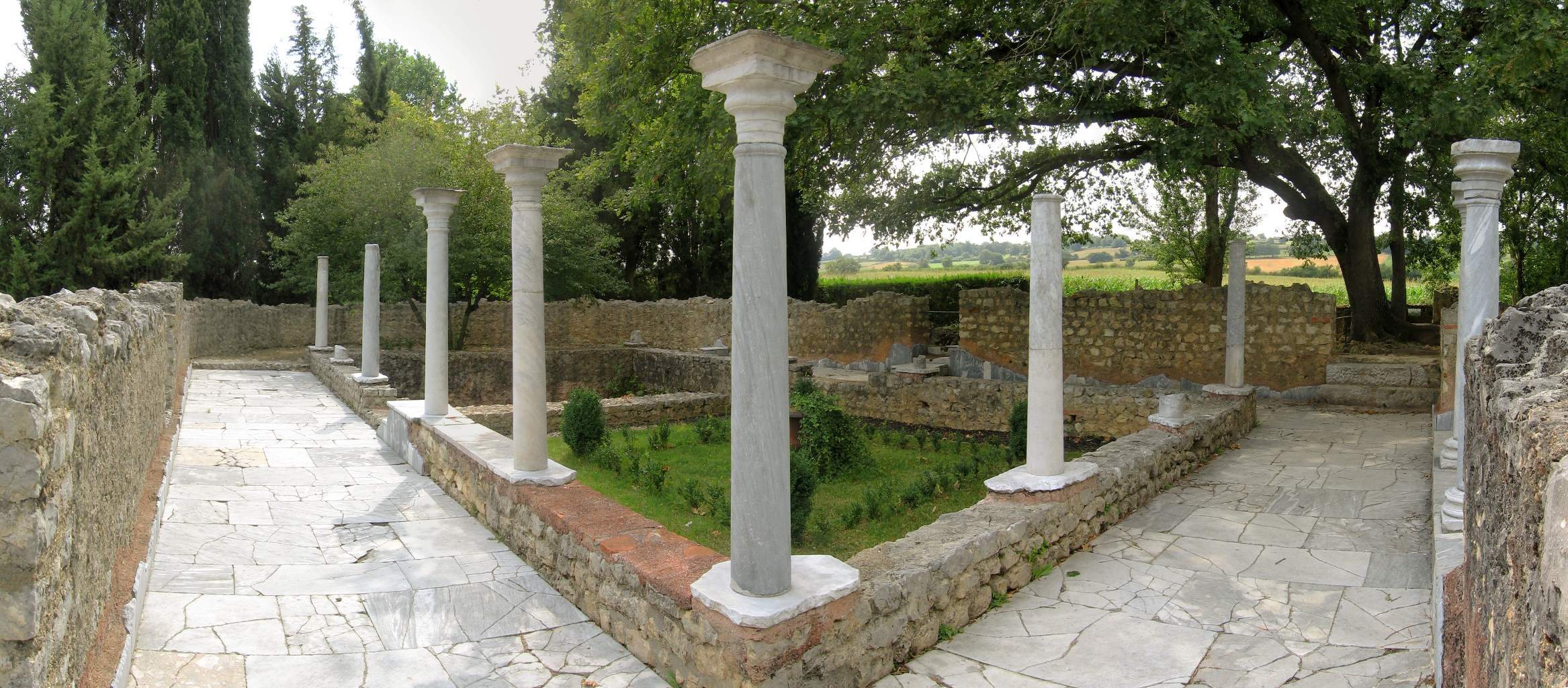 Roman villa in Montmaurin, France. Nymphaeum, bath area.